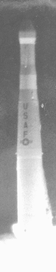 Launch of Thor Ablestar launch vehicle with Transit O-3 and SECOR 2 satellites, 11th March 1965.